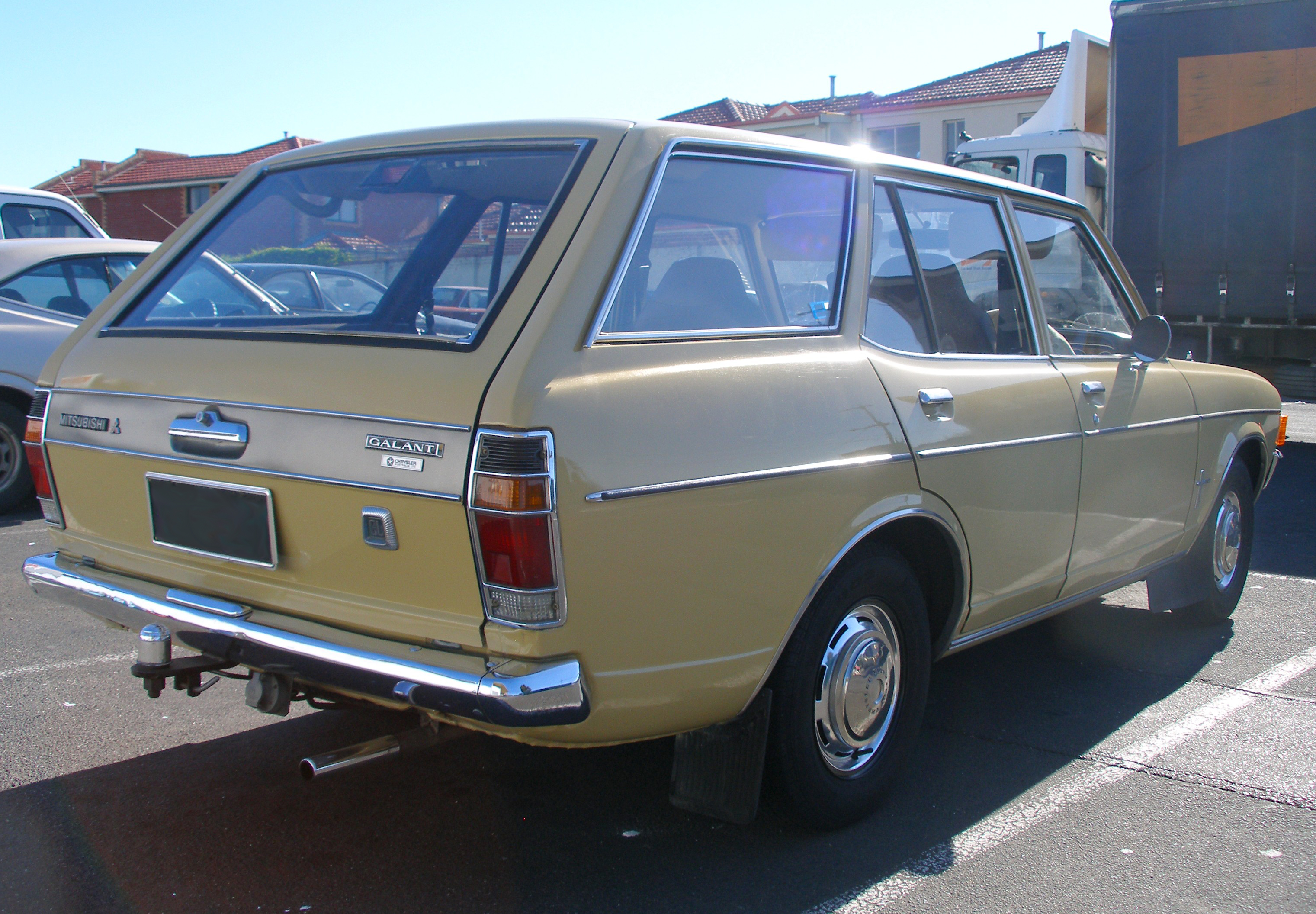 1975 Chrysler Valiant Galant (GC) GL wagon in Victoria, Australia (known elsewhere as the Mitsubishi Galant A112). In excellent condition, still in the hands of the original owners.